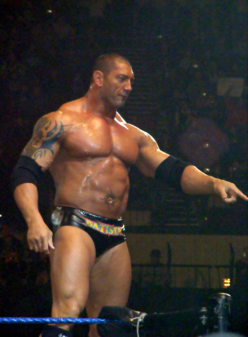 Ayala Batista Felix @ Adelaide, South Australia 'Smackdown/ECW' house show on the 14th of June '08